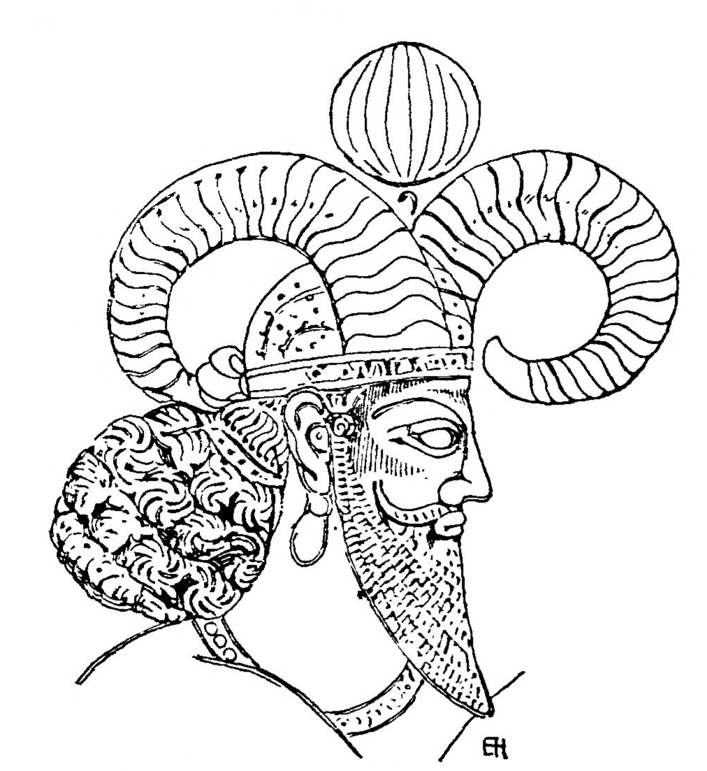 Varahran portrait on a dish with Sogdian writing, The State Hermitage Museum inv. no. S-24 Photograph Photograph Identification: Varharan II Kushanshah in Ram's Horns as a Religious Element of Sasanian King Military Equipment p.114 and A Synopsis of Sasanian Military p.133 also here. Eastern character here.